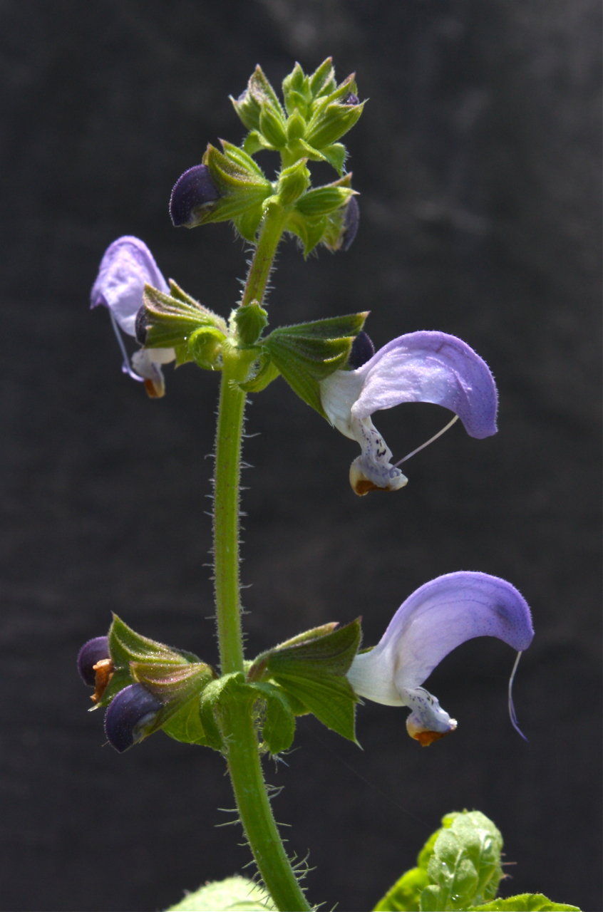 Flower detail of Salvia algeriensis